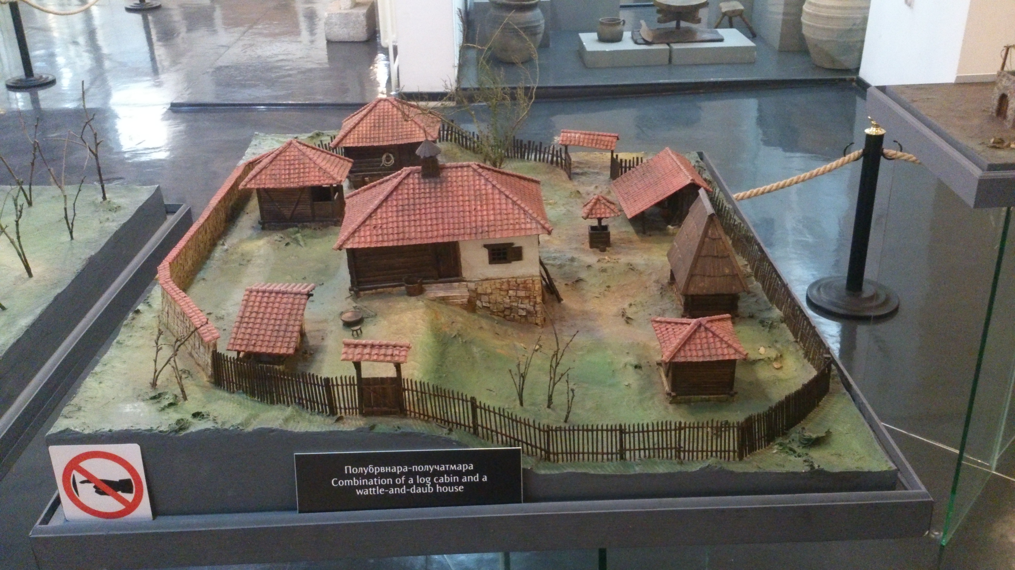 Ethnografic Museum in Belgrade, Serbia Srpski (latinica): Etnografski muzej u Beogradu